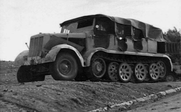 A captured German half track (Sd.Kfz. 8) in Libya, 1941